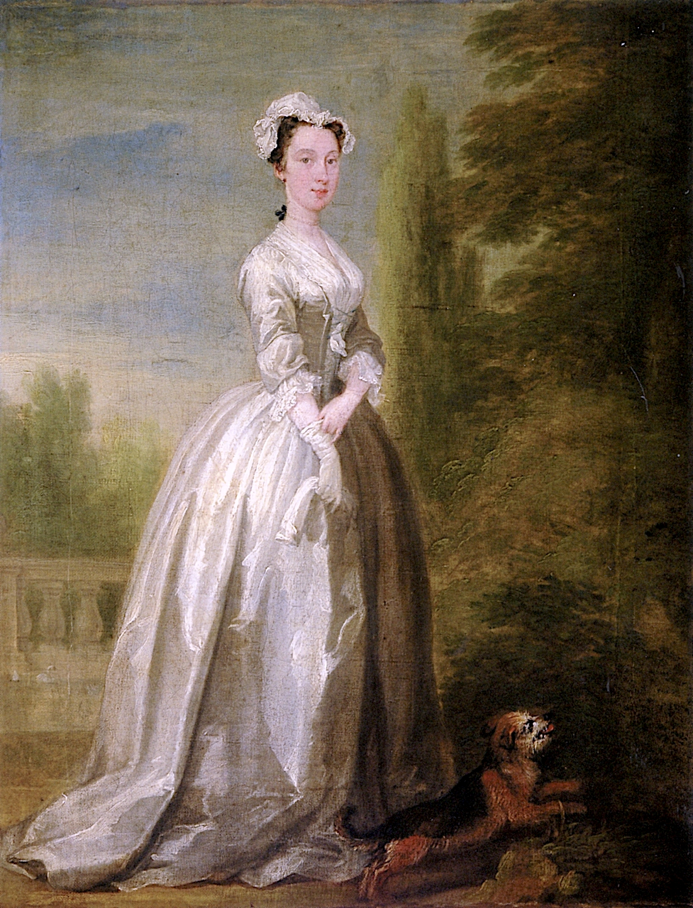 Third wife of William Byron, 4th Baron Byron, great grandmother of Lord Byron, painted by William Hogarth. Now on display in the Cannon Hall Museum, Barnsley, Yorkshire.